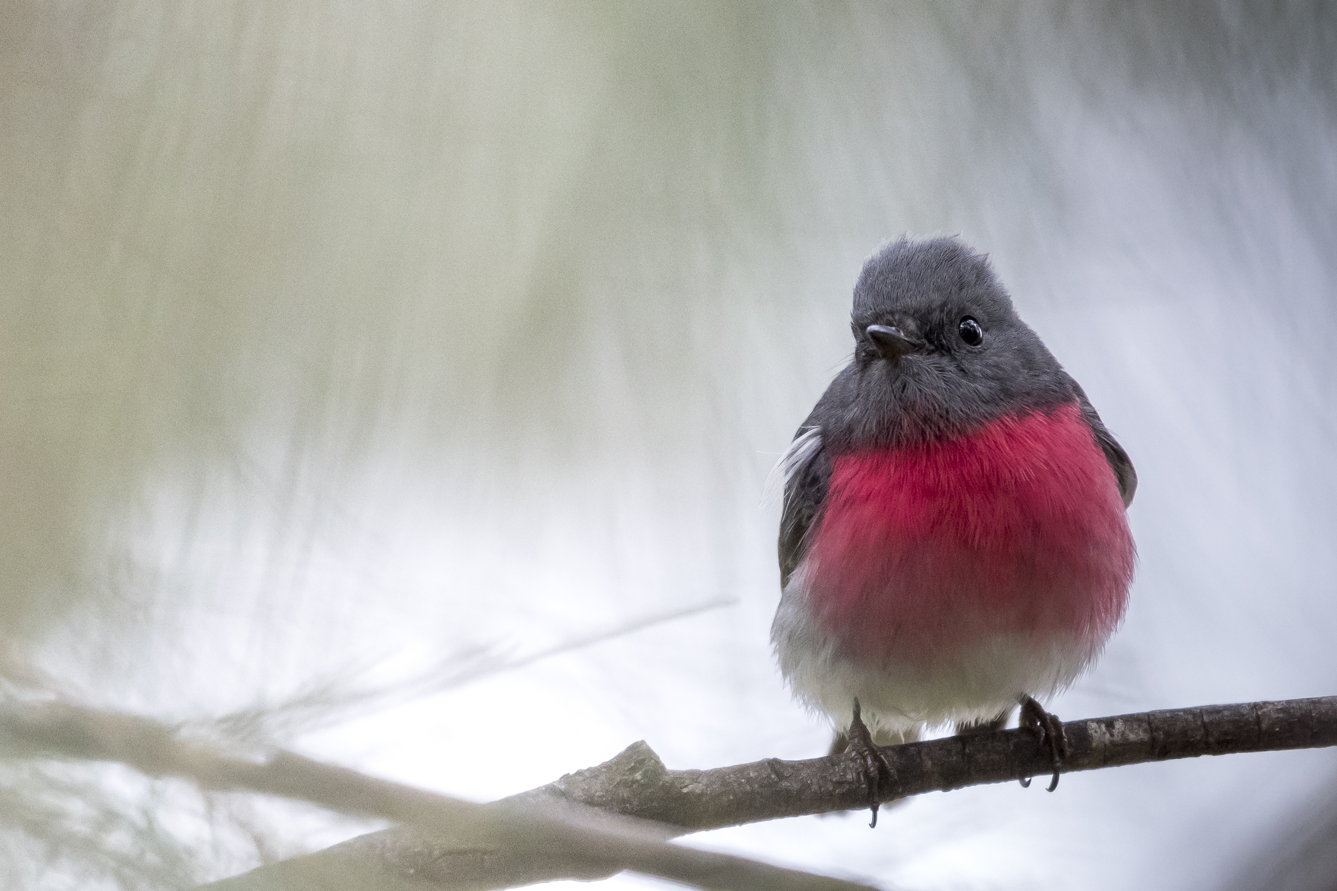 Male Rose Robin in Palmerston, Canberra